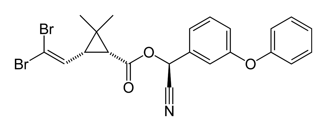 Ball-and-stick model of the deltamethrin (AKA decamethrin) molecule, C22H19Br2NO3